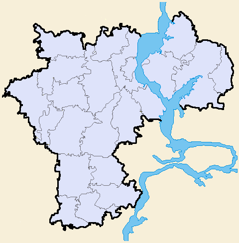 Raions of Ulyanovsk Oblast